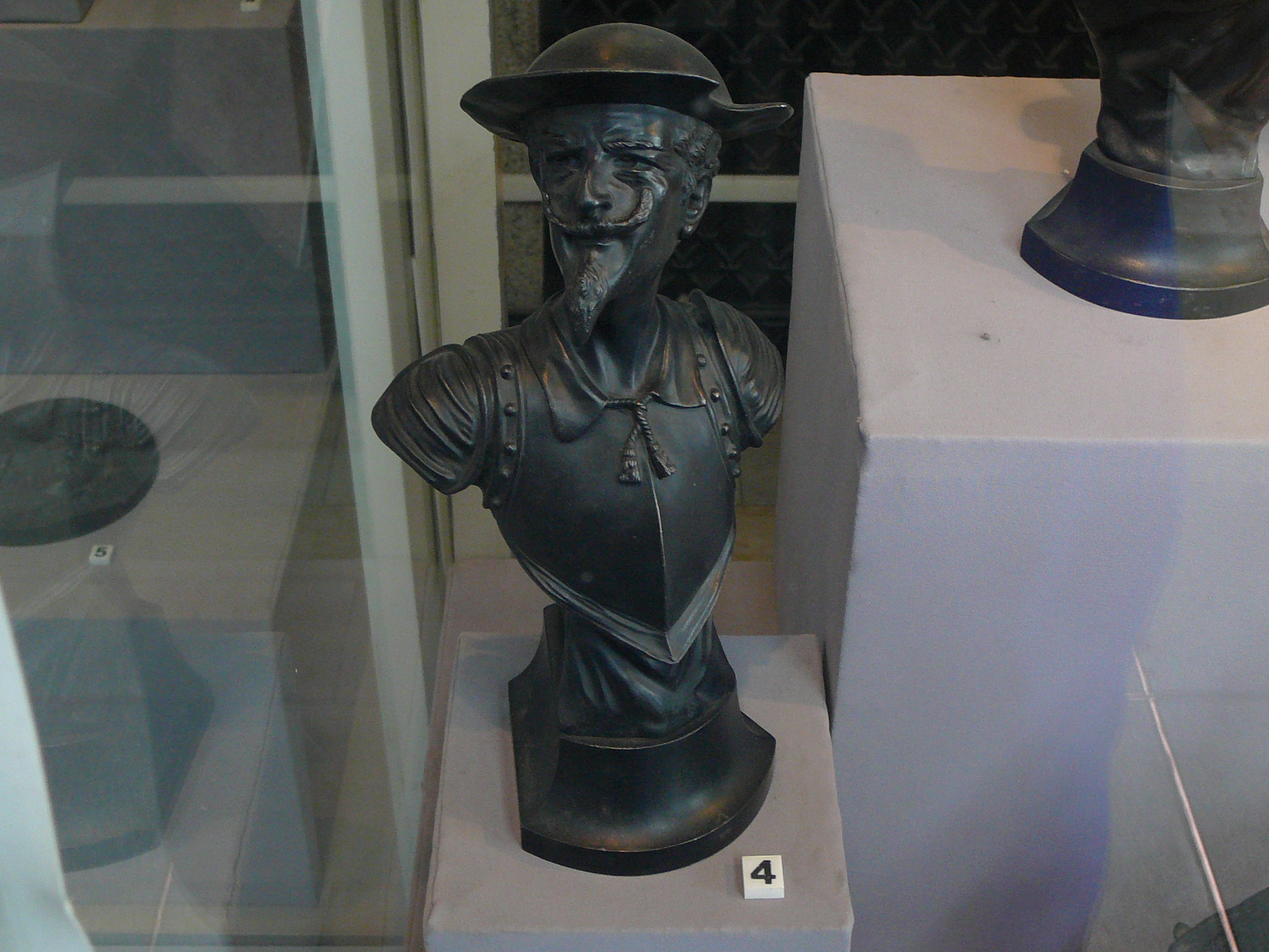 On the photo depicted a bust of the legendary Don Kikhot, created by Felix Gustave Morelli (1848-1909) in 1918.